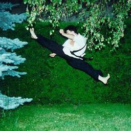 Master in martial arts executing a jump spin hook kick.